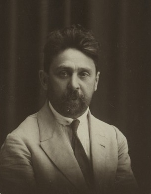 Zvi Bruck